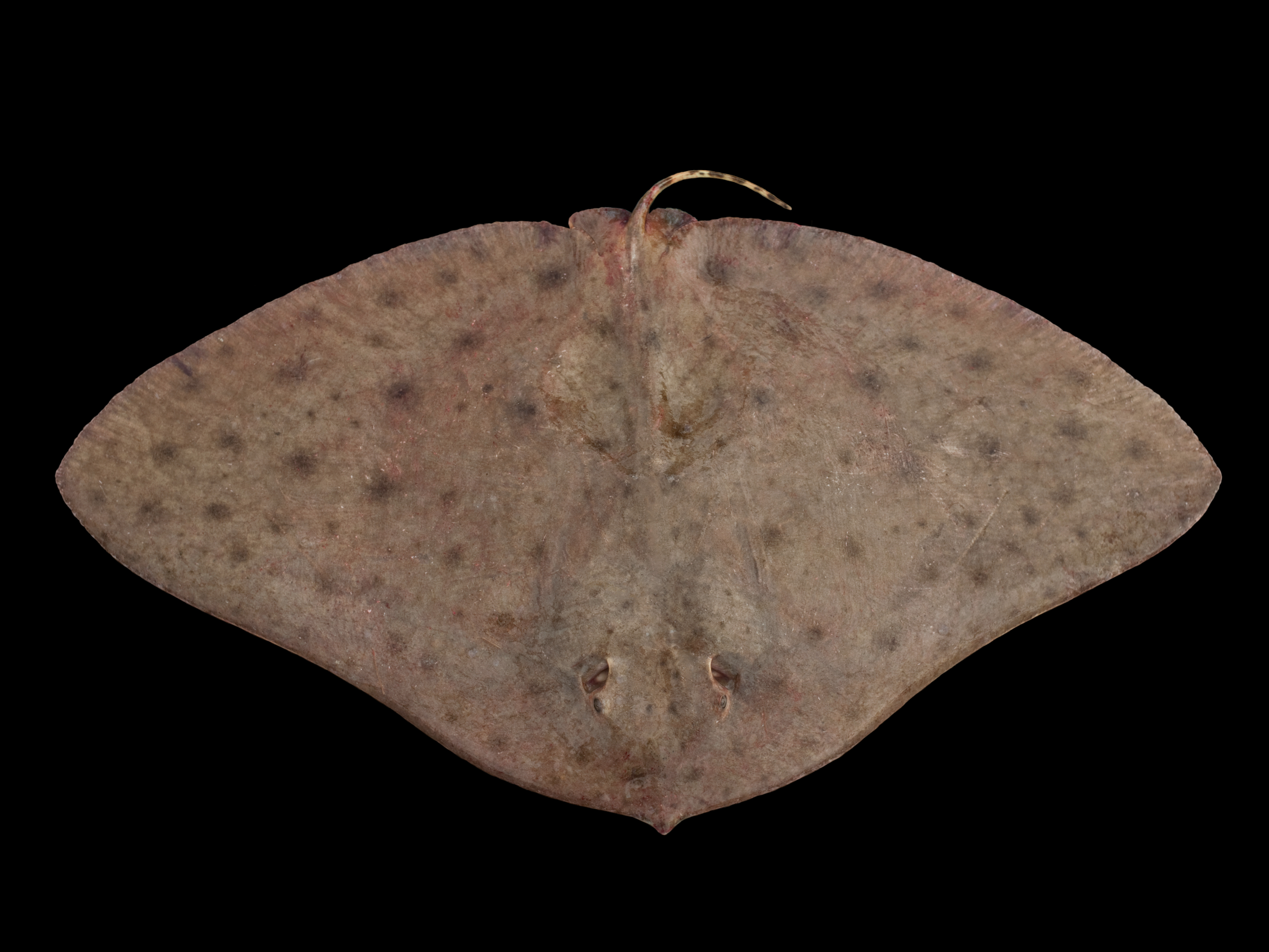 Smooth butterfly ray caught offshore off Paramaribo, Suriname. The co-ordinates are the approximate catching location. This work is free and may be used by anyone for any purpose. If you wish to use this content, you do not need to request permission as long as you follow any licensing requirements mentioned on this page.